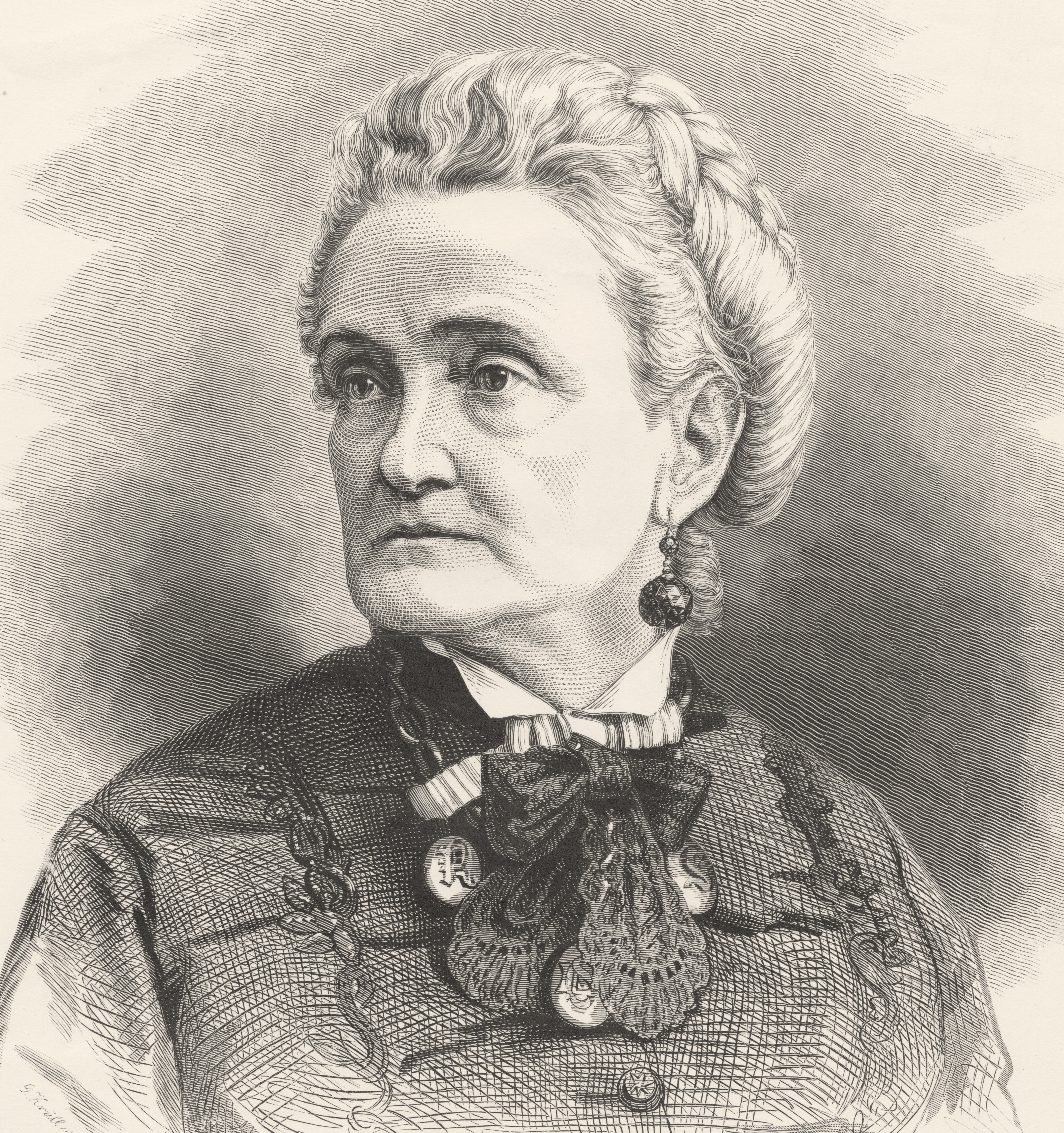 Portrait of American actress Charlotte Cushman